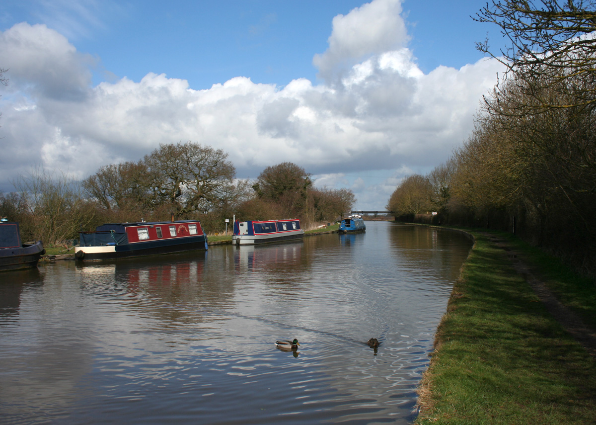 Shropshire Union Canal, Poolehill, Cheshire. View NNW along the canal at the point where Poolehill Road diverges from the towpath.